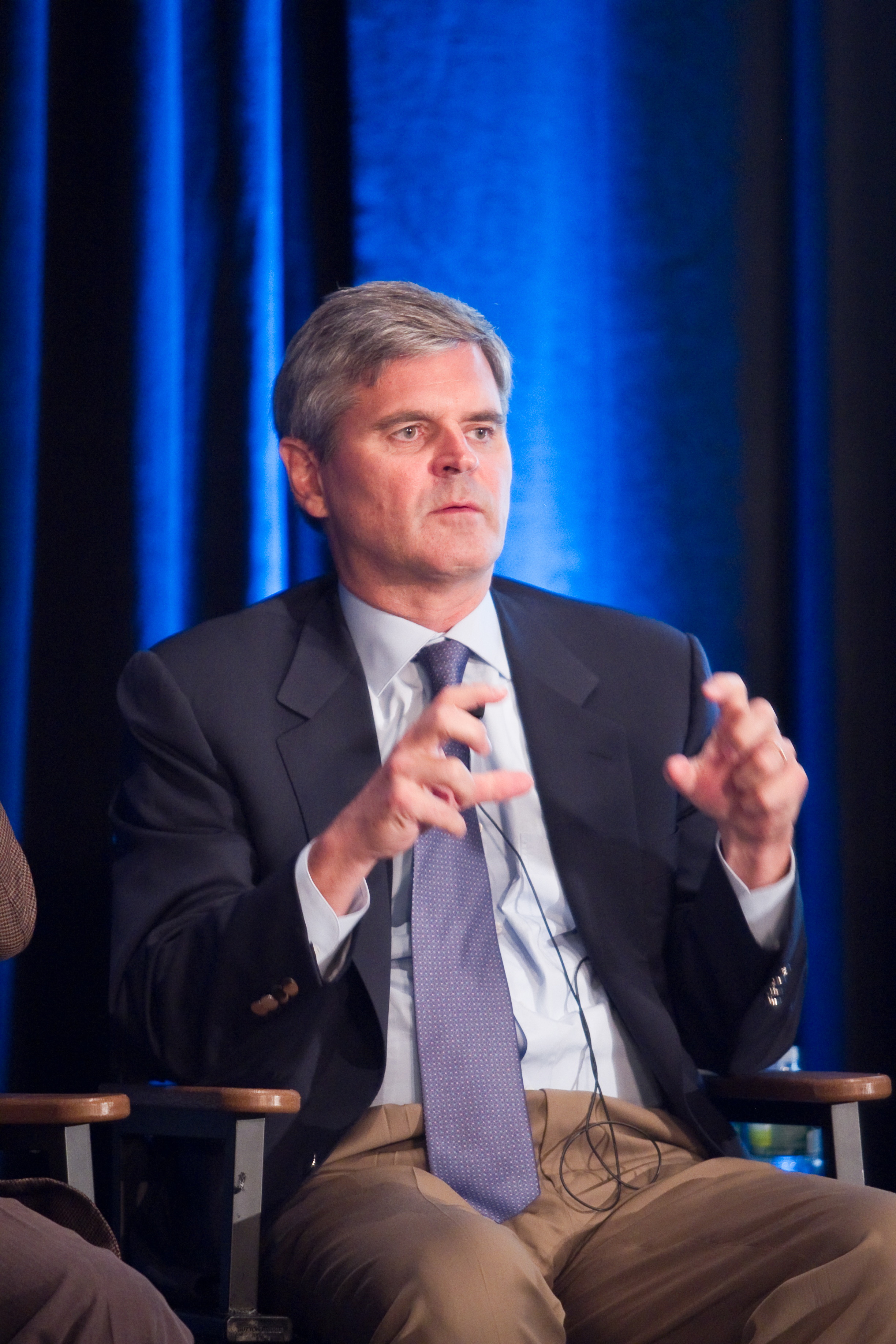 Steve Case 2011